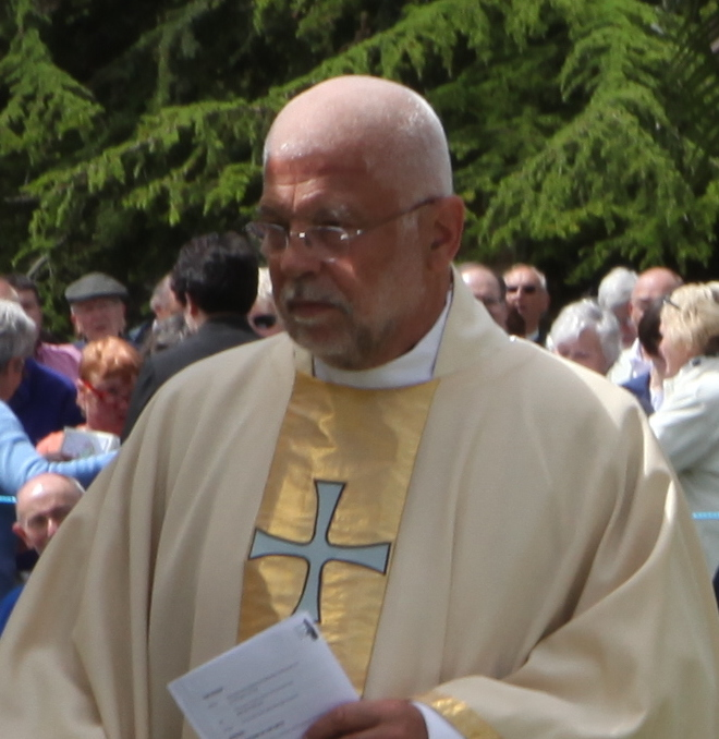 Church of England bishops during the National Pilgrimage to Walsingham, 2012